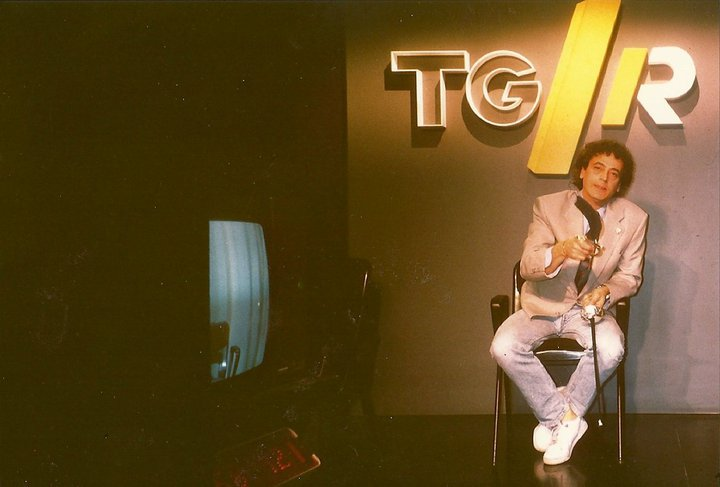 Screenshot of tv-show "Sport....ento"